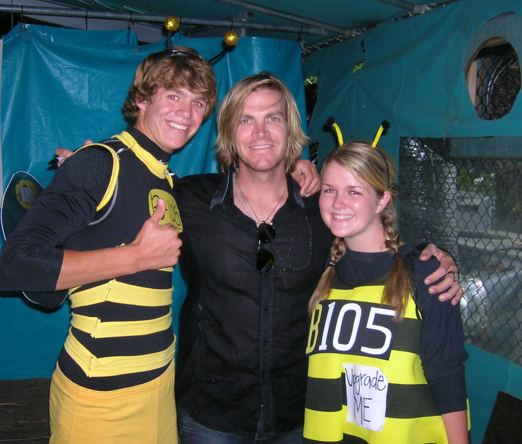 jack ingram at Marcus Amphitheatre in Milwaukee, WI with fans.